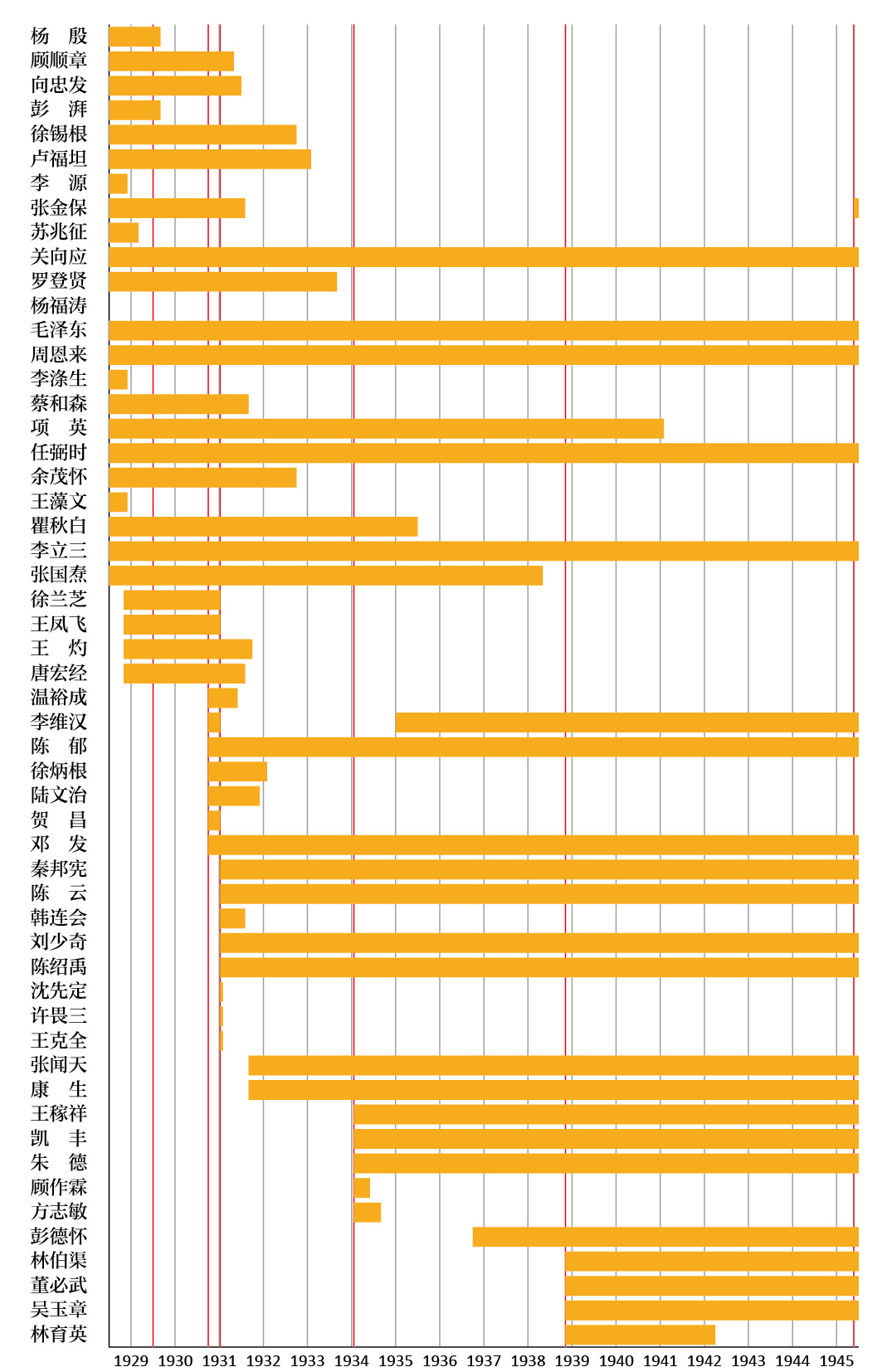 the 6th central comette members